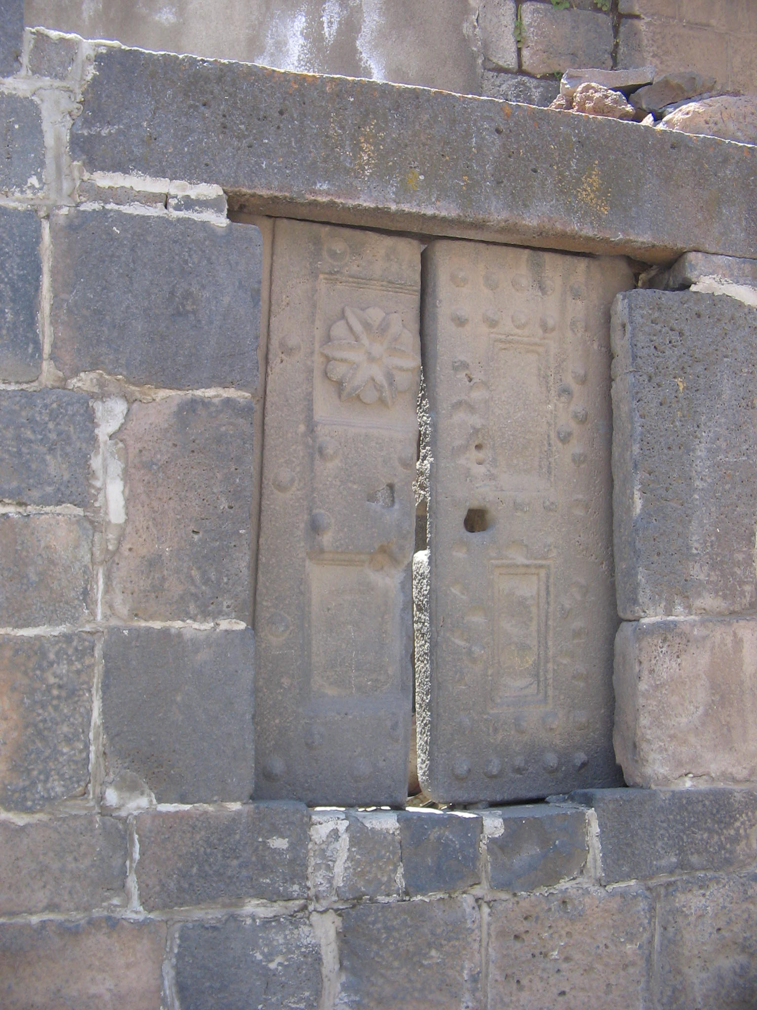 Detail of a window in local stone, Kanatha Al Qanawat in 2006